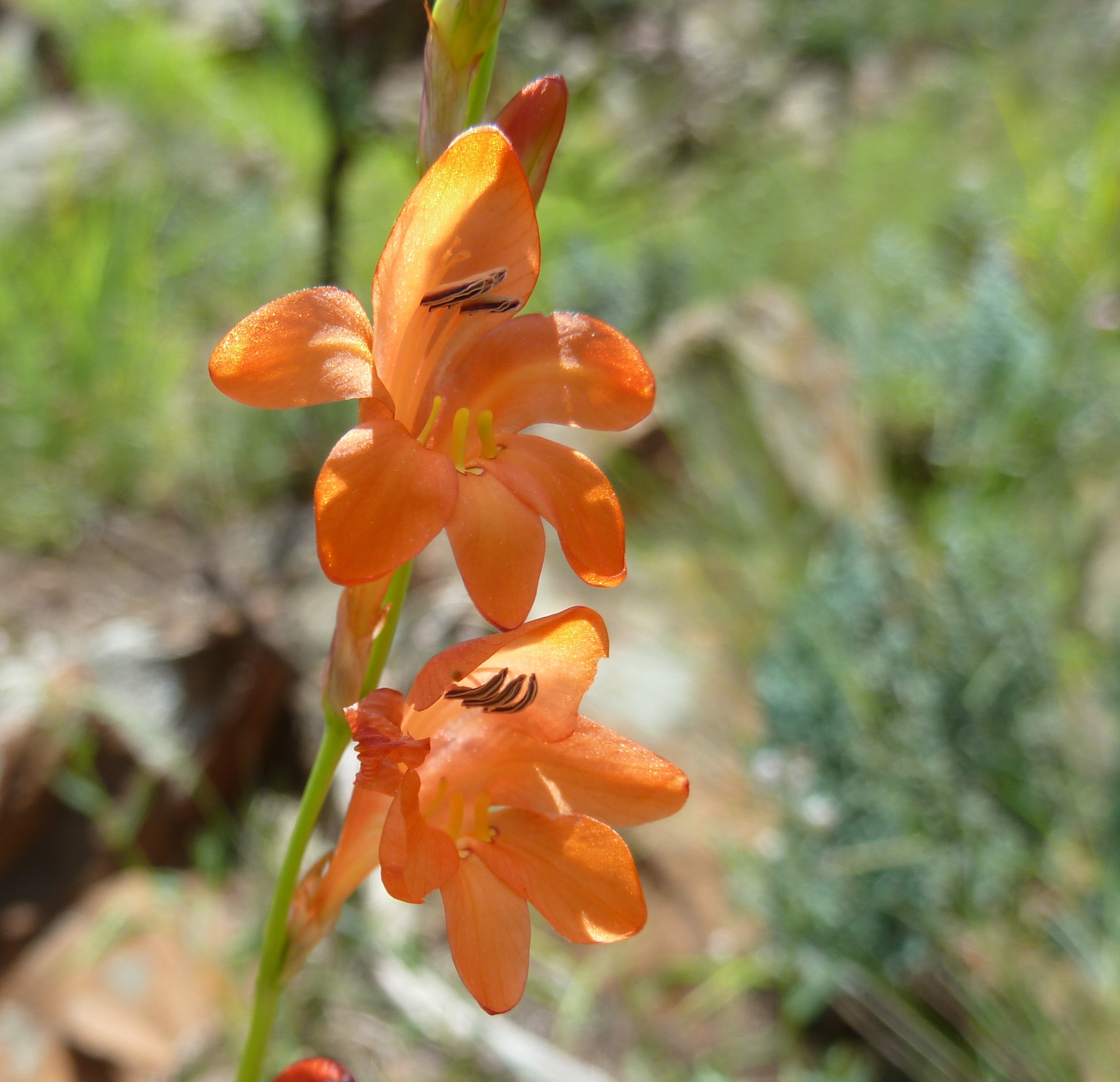 Flowers of Tritonia nelsonii on the Roodekrans at Walter Sisulu National Botanical Garden